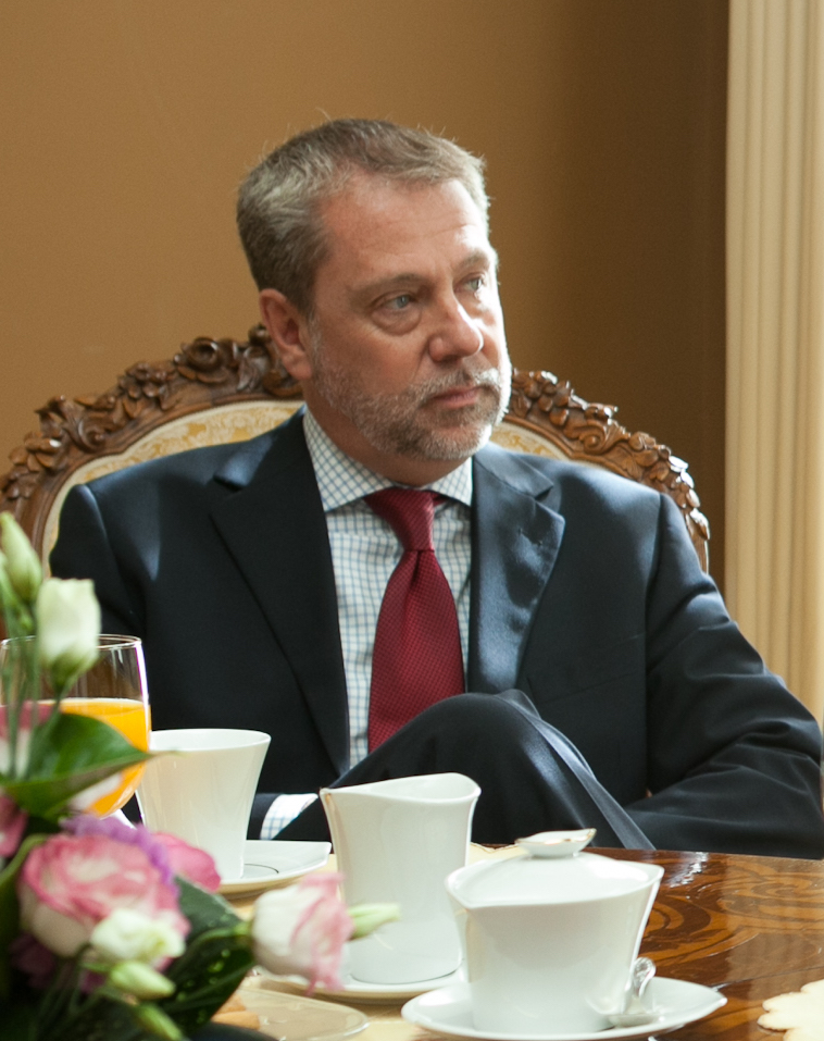 Mexican politician Jorge Lomónaco Tonda